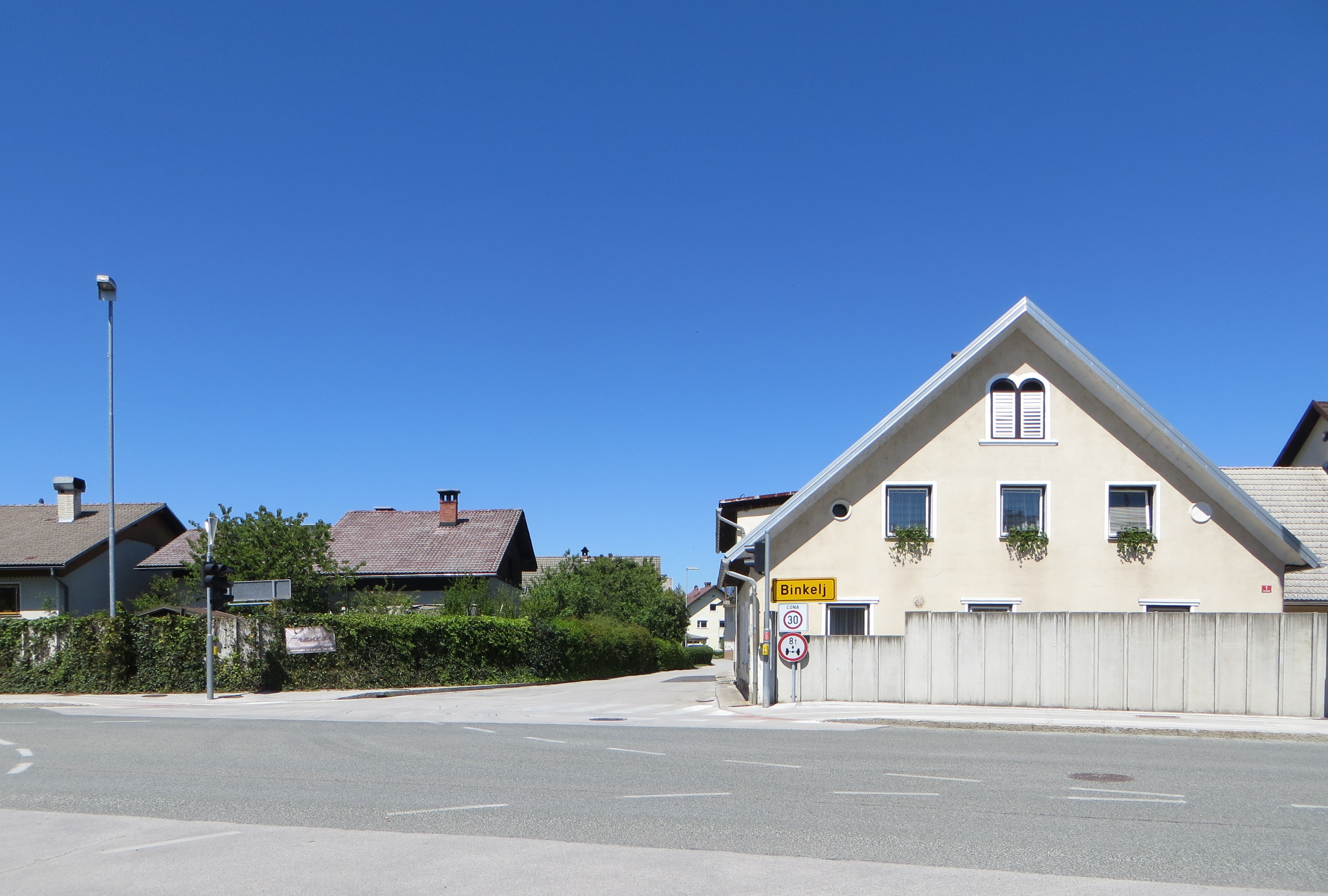 Binkelj, Municipality of Škofja Loka, Slovenia